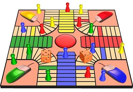 It is a 3D model of a Parqués board